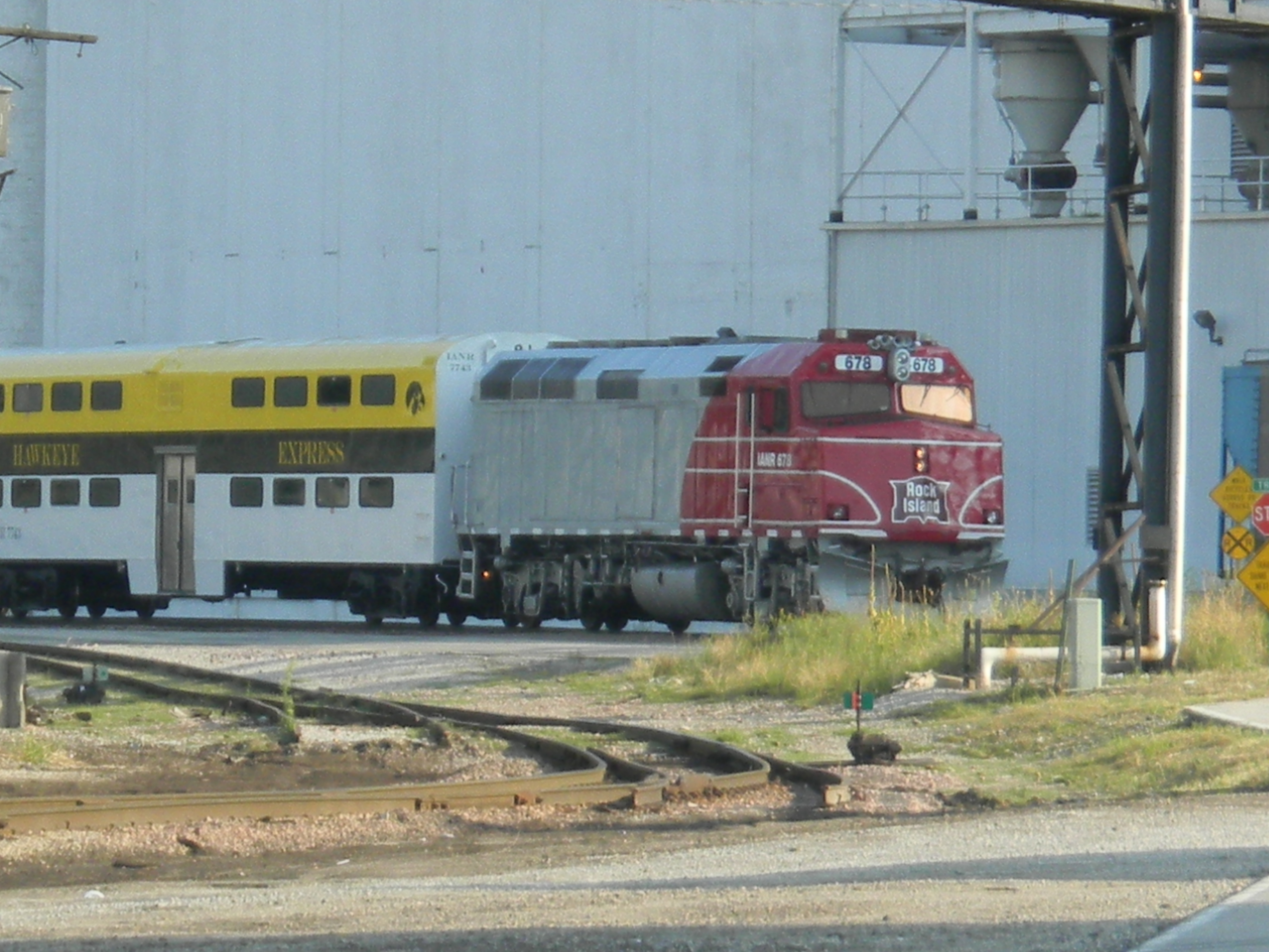 Iowa Northern Railway locomotive 678, painted in Rock Island Railroad colors, in Cedar Rapids, Iowa